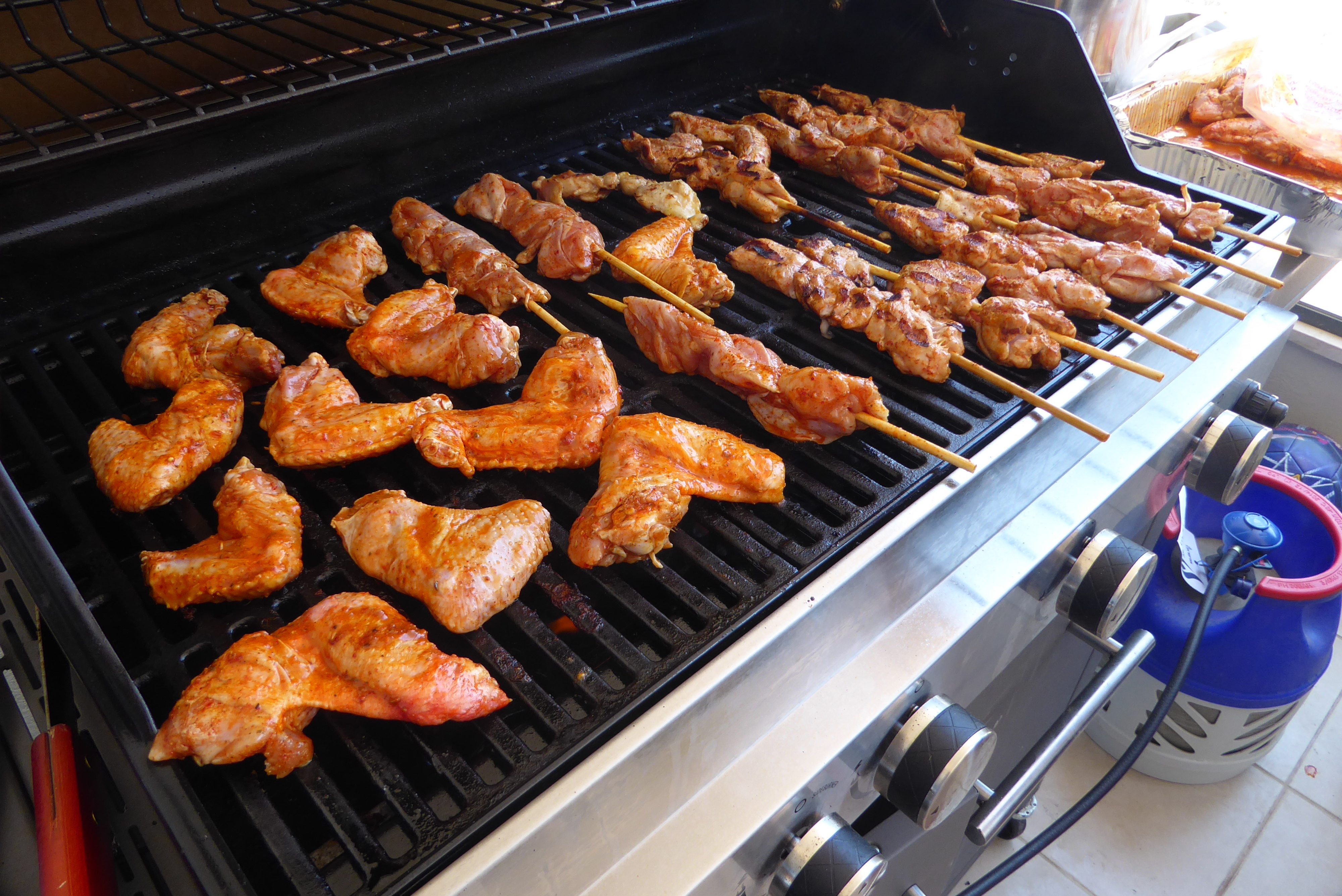 Barbecue in Israel